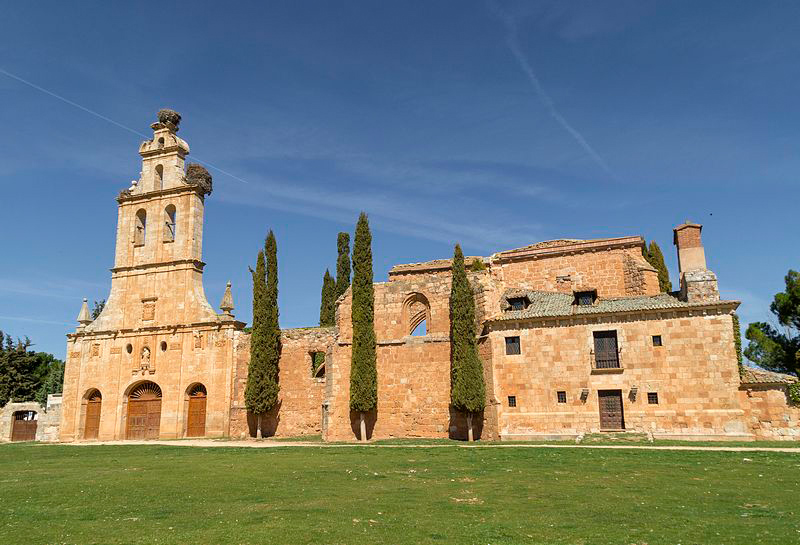 Antiguo convento de San Francisco en Ayllón.